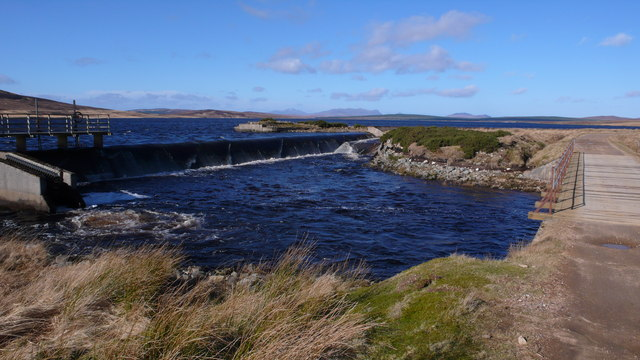 Weir at Loch Badanloch